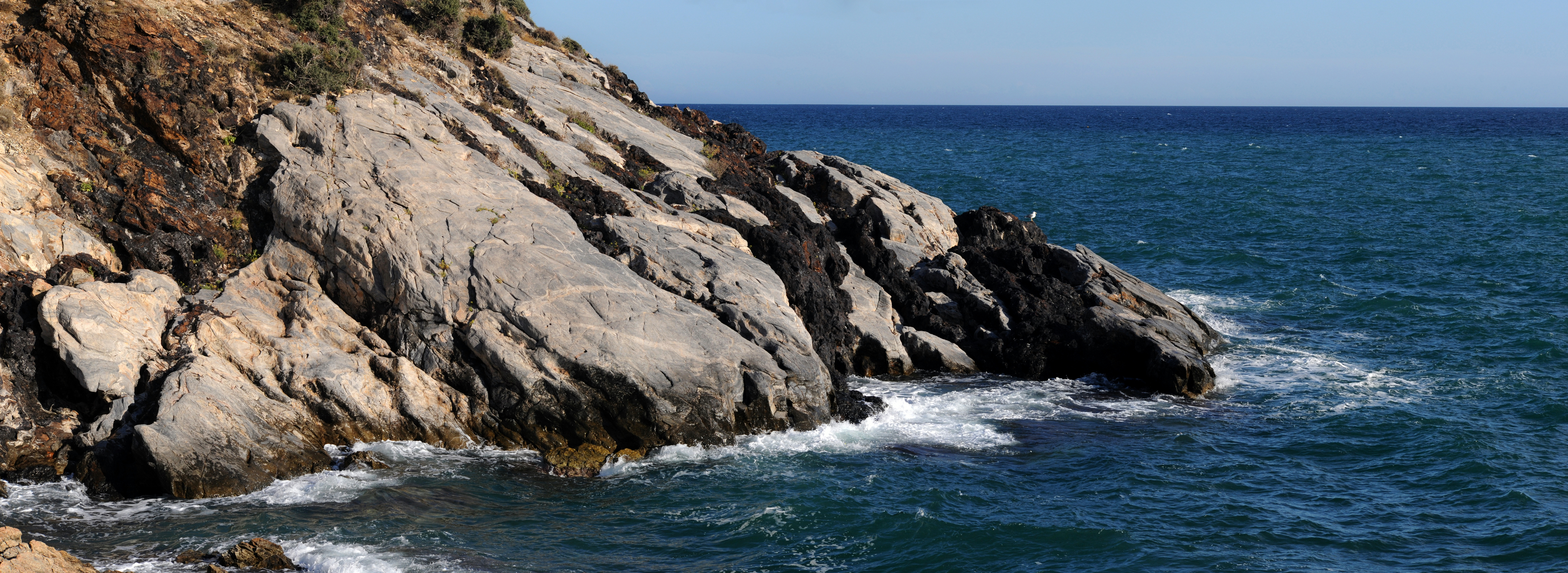 Iron ore veins and beds, Marmaritsa, Rhodope, Thrace, Greece.